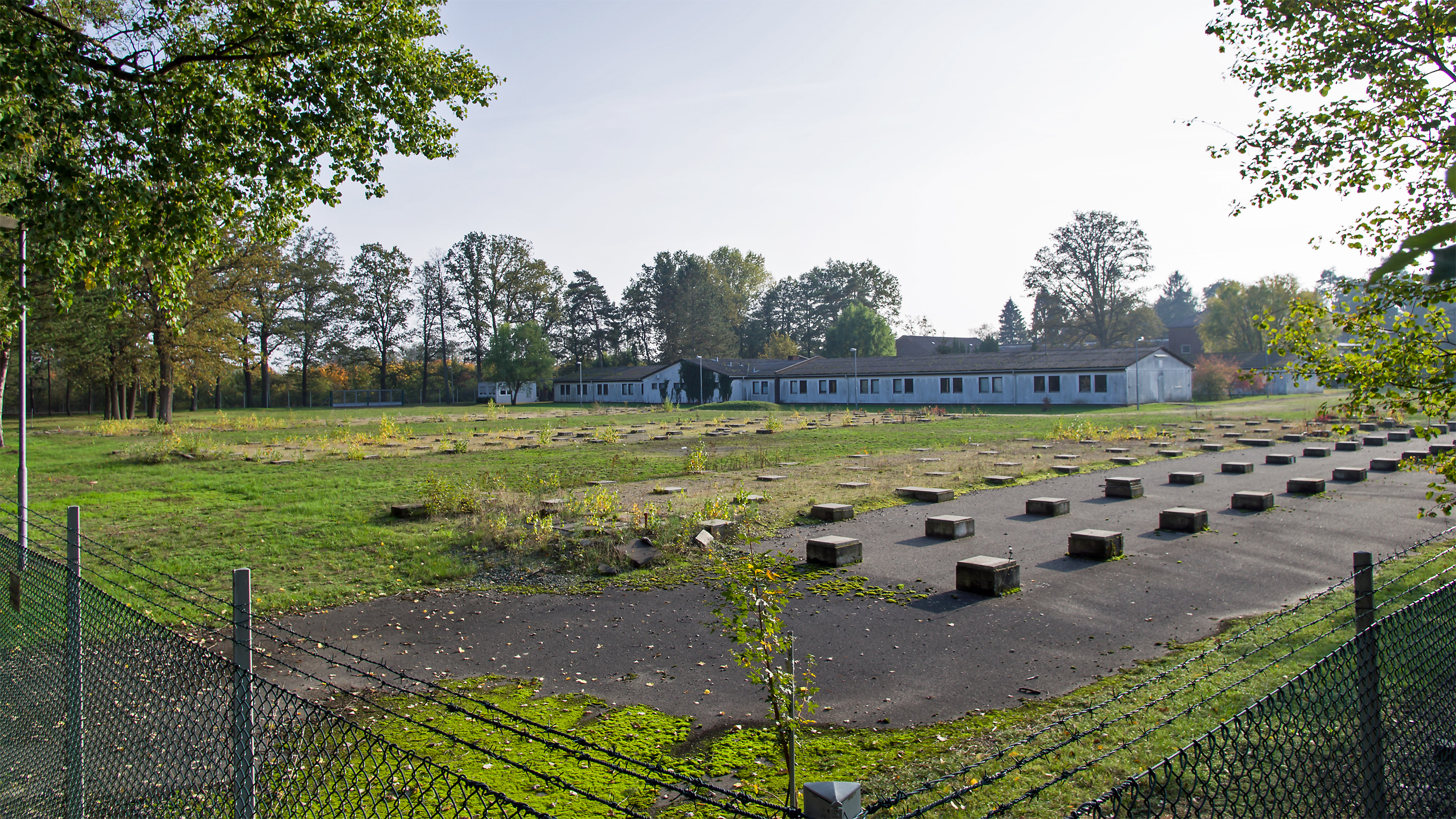 Property of the former overseas radio receiving station Lüchow-Woltersdorf in northern Germany (this use was discontinued in 1987).